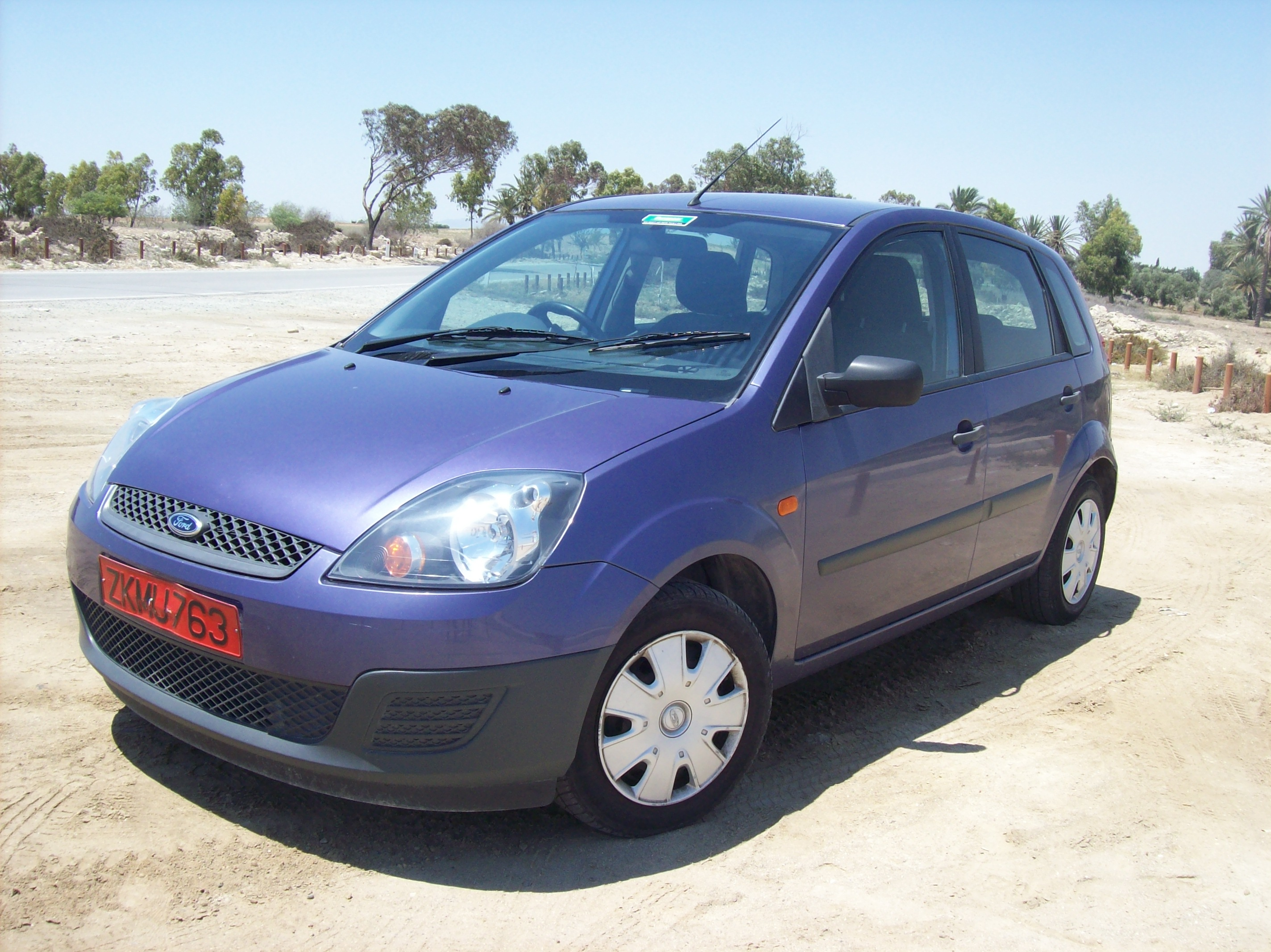 Ford Fiesta at Larnaca Salt Lake, Larnaca, Cyprus